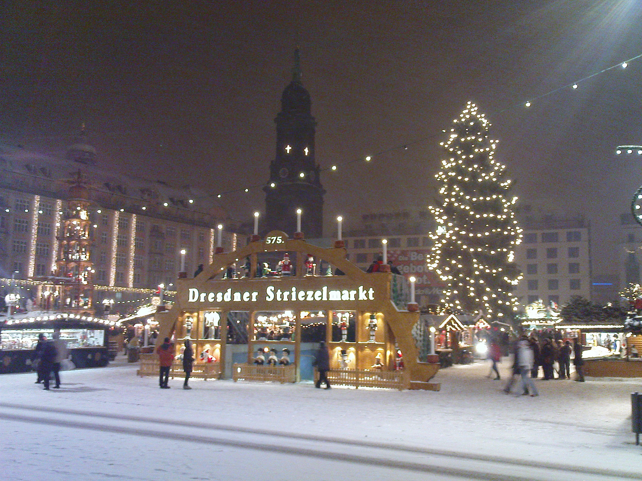 575. Christmas market in Dresden, Germany